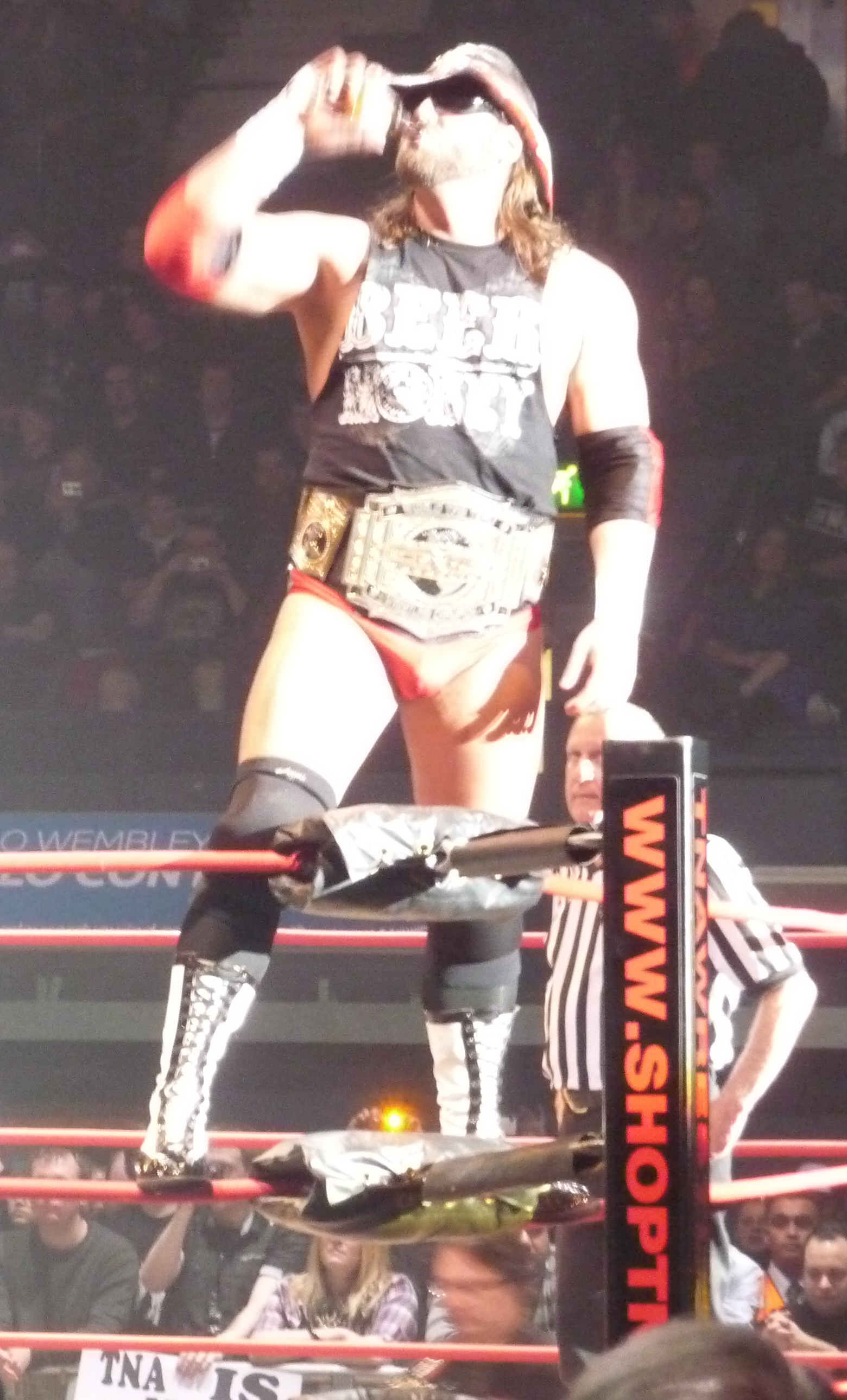 TNA World Tag-team Title match